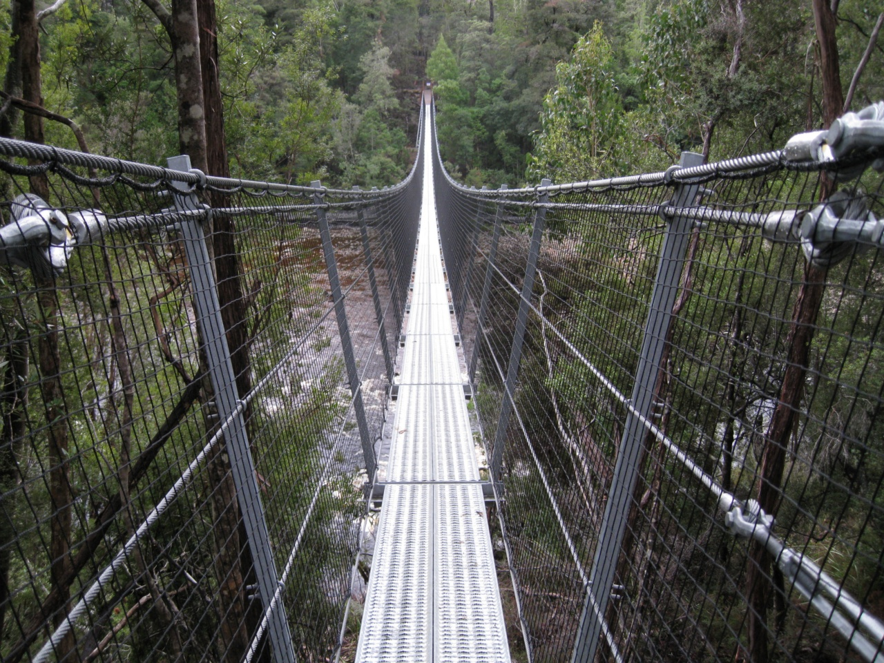 A suspension bridge crossing the Huon River in the Tahune State Park, Tasmania, Australia.